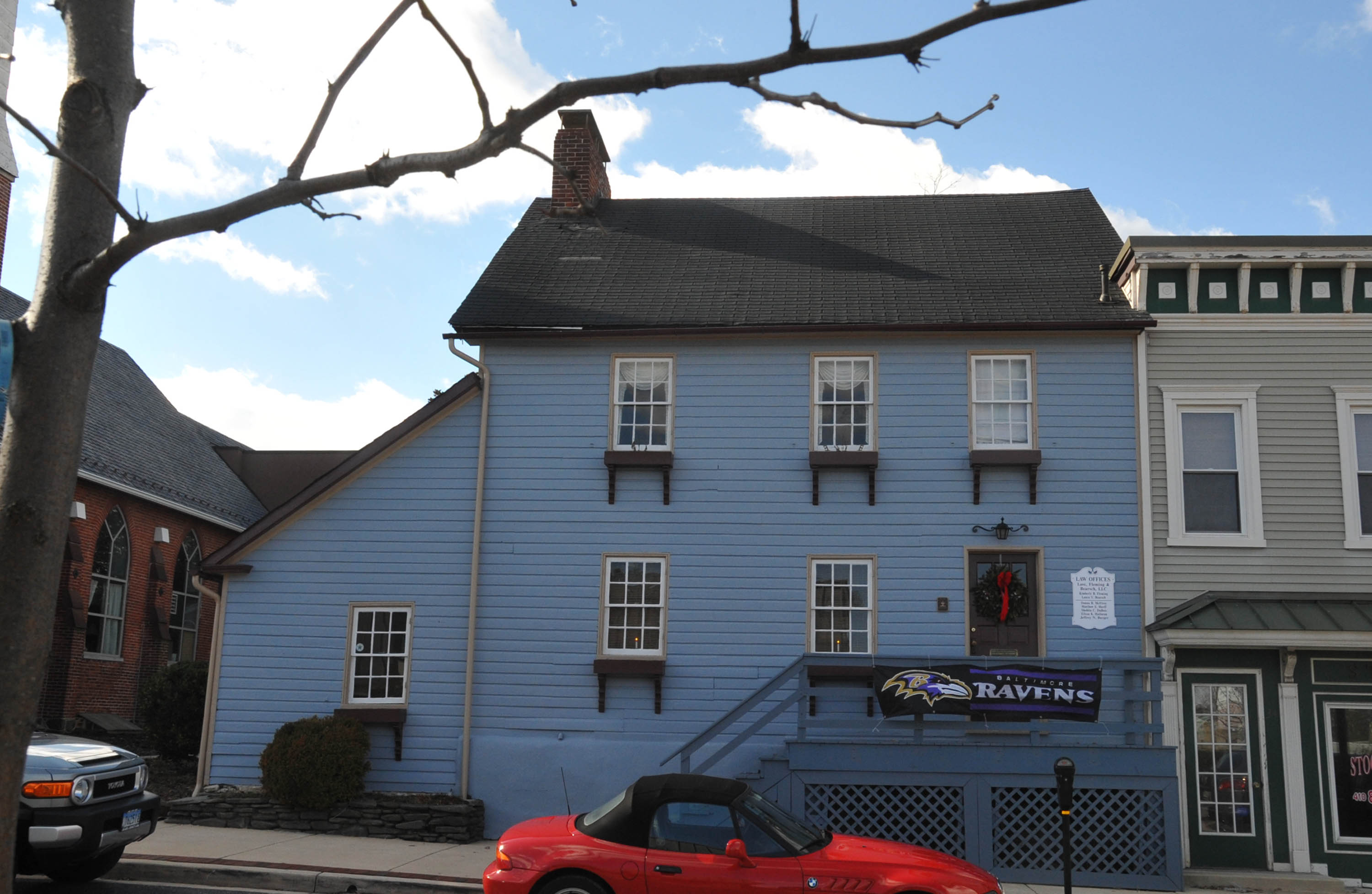 BUILT CIRCA 1825 BY HENRY FOY; IT IS THE 3RD OLDEST HOUSE IN BEL AIR; BETWEEN 1935 AND WORLD WAR II IS WAS A TEA SHOP RUN BY BERTHENIA CROCKER AND CLARIA GRAHAM. House is in Bel Air, Harford County, Maryland, USA